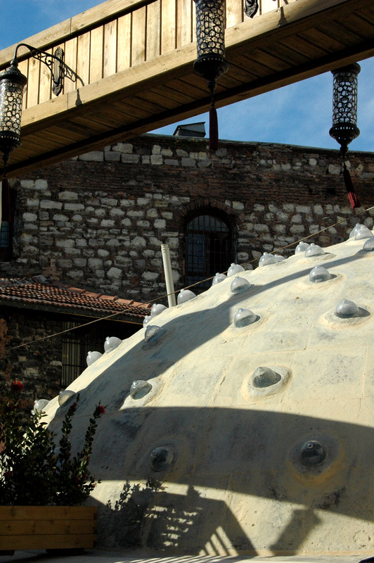 Exterior view of the dome of the hamam.